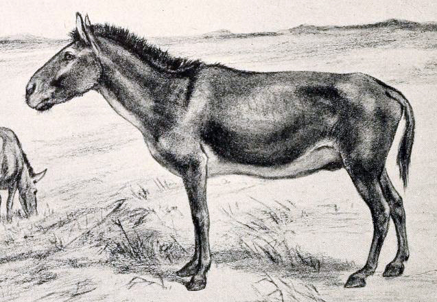 Crop of file in filename